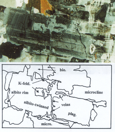 Metasomatic replacement of plagioclase by microcline. Courtesy Lorence Collins.